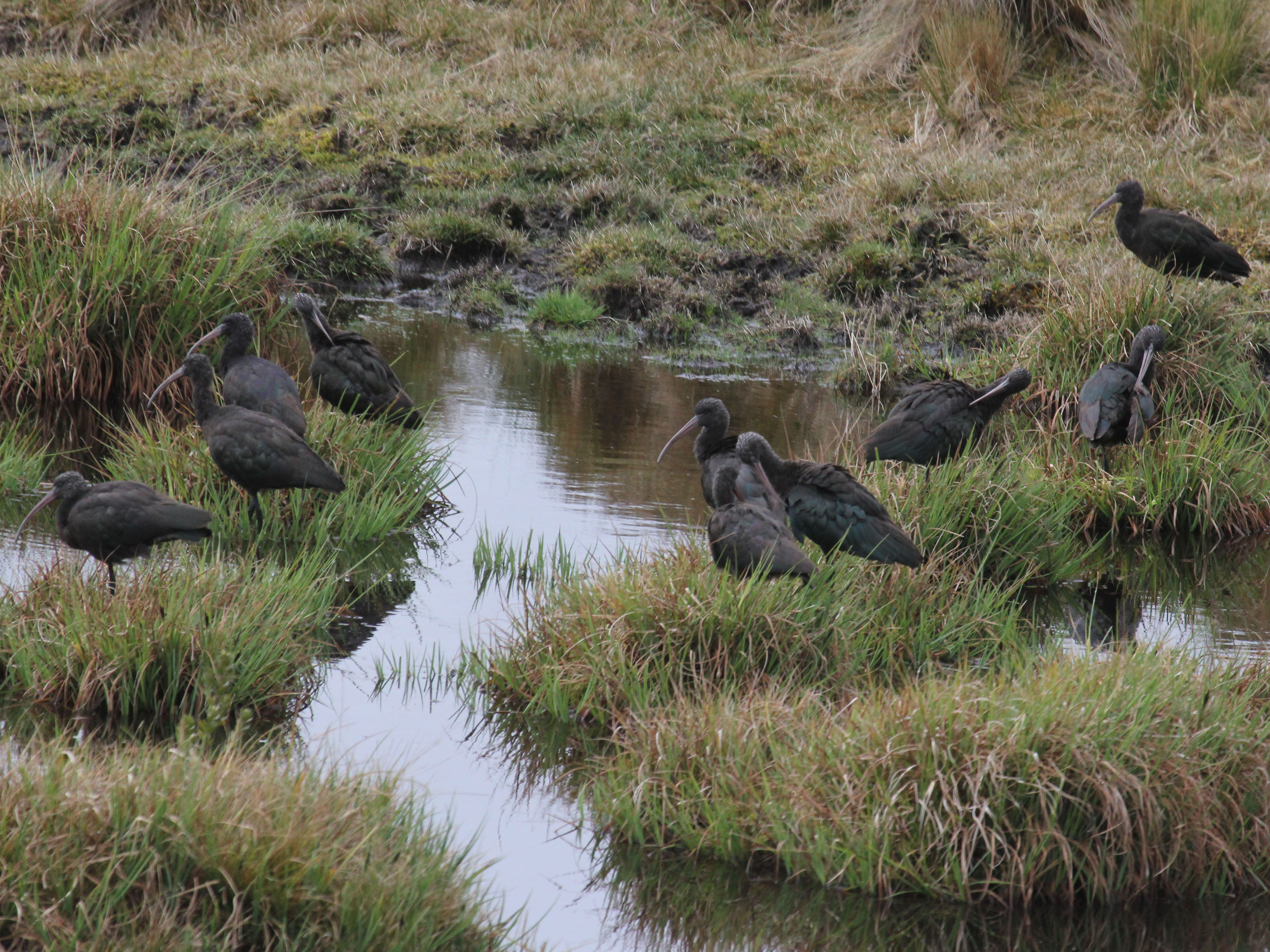 Puna Ibis (Plegadis ridgway) - Andes of Peru